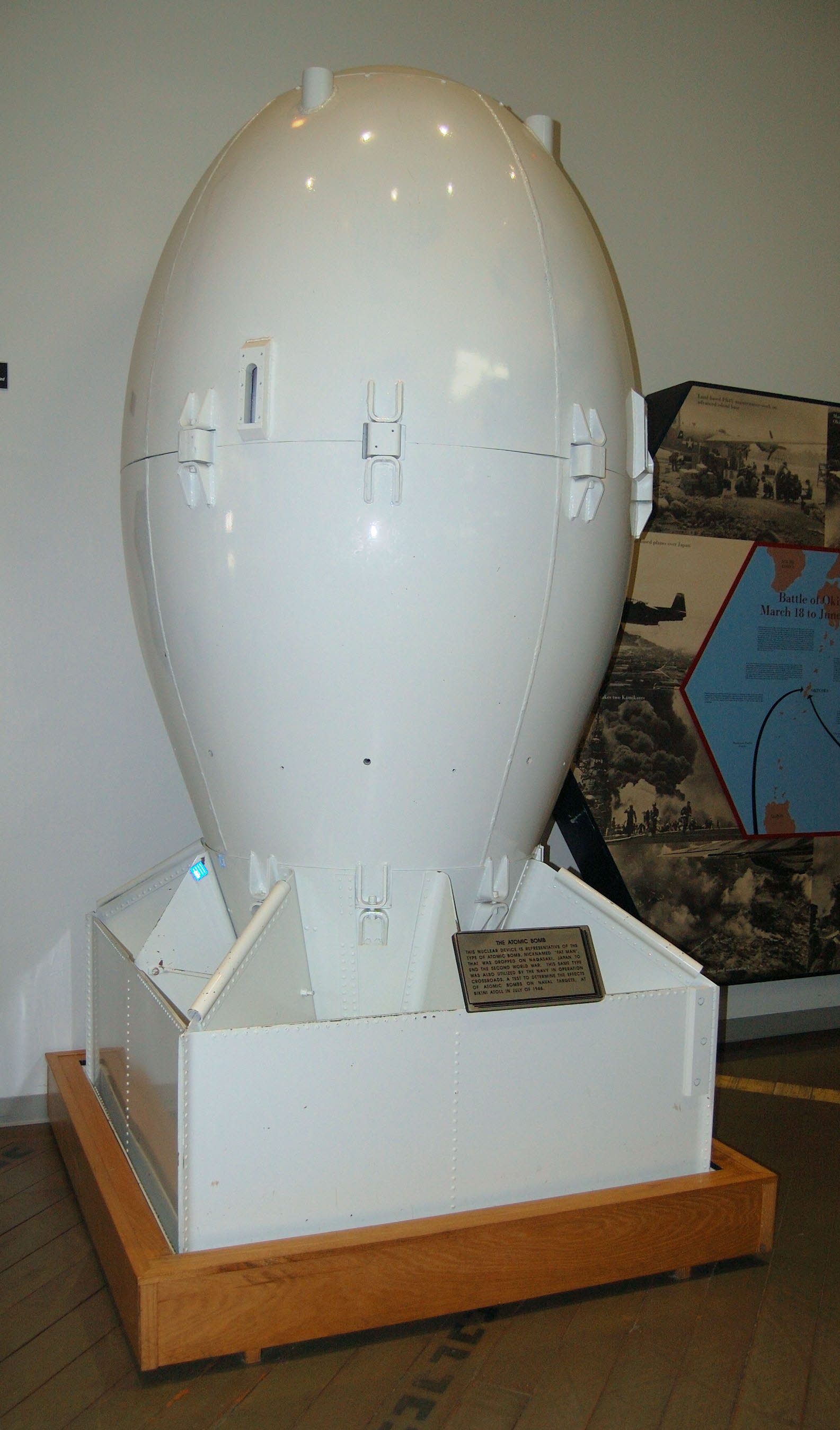 This nuclear device is representative of the type of atomic bomb, nicknamed Fat Man, that was dropped on Nagasaki, Japan to end the second world war. This same type was also utilized by the Navy in Operation Crossroads, a test to determine the effects of atomic bombs on naval targets, at Bikini atoll in July of 1946.